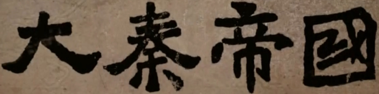 Handwritten title of television series The Qin Empire II: Alliance